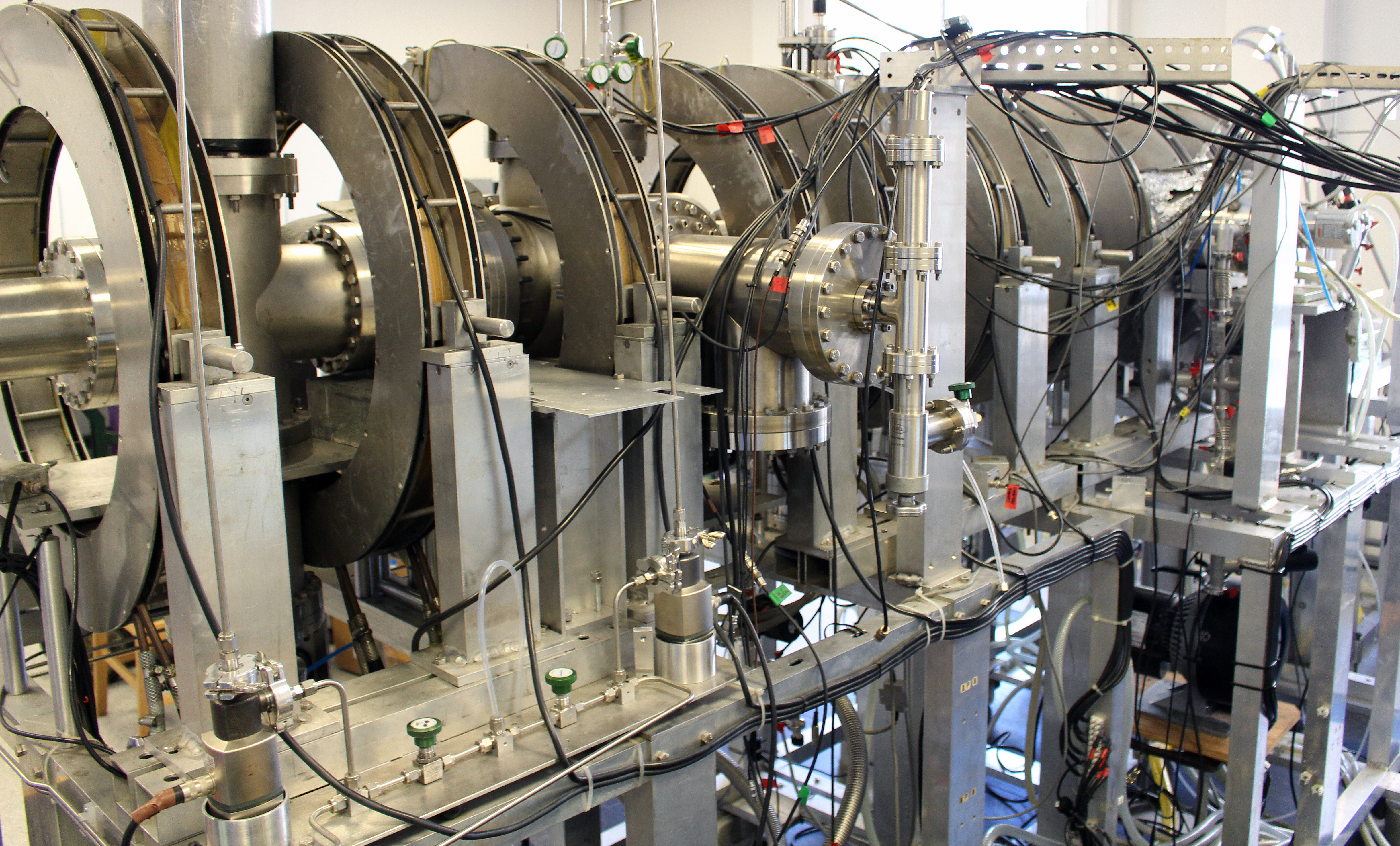 This photo shows the Positronium Beam at University College London